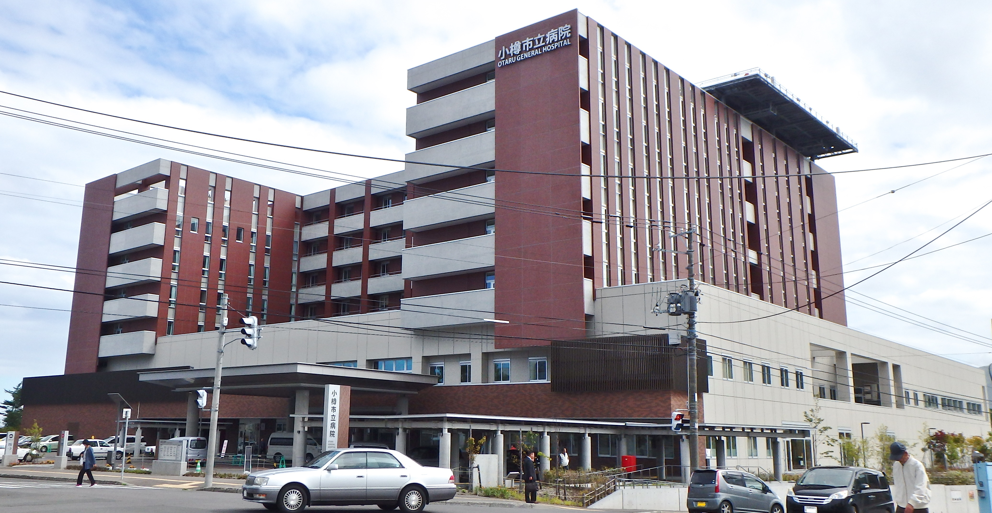 Otaru General Hospital,Hokkaido prefecture,Japan